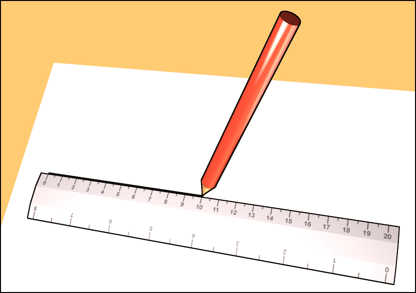 geometry